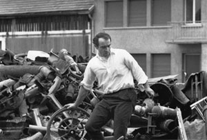 Jean Tinguely